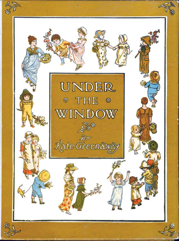 Cover of Under the Window: Pictures & Rhymes for Children illustrated by Kate Greenaway, engraved by Edmund Evans.